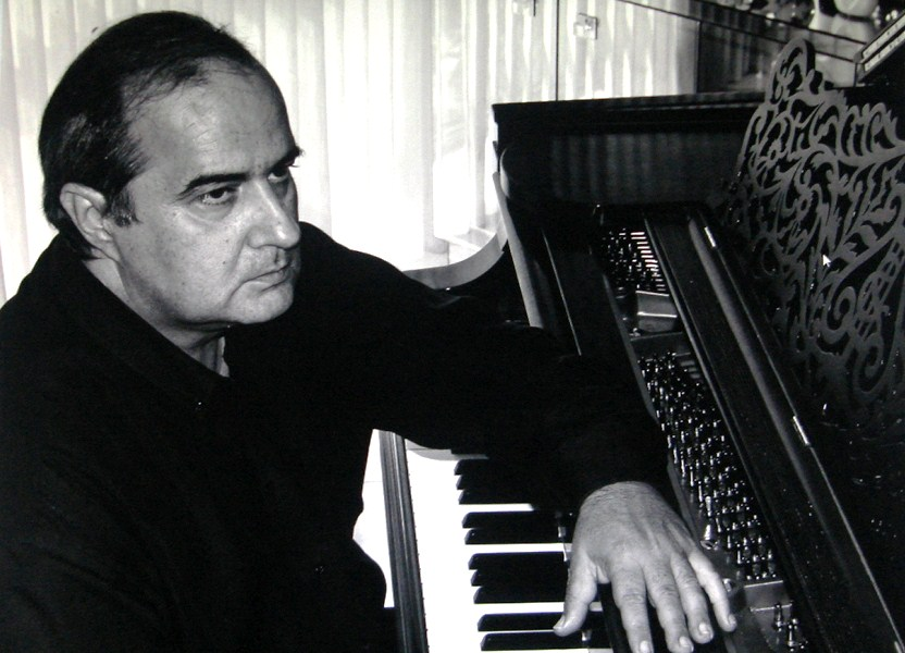 Jorge Luis Prats, great cuban pianist.